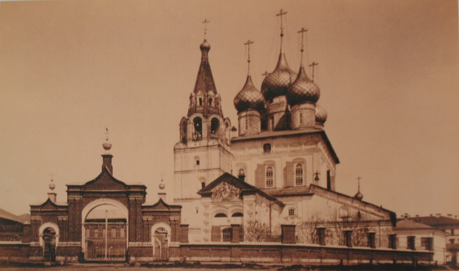 The Church of Archangel Michael.